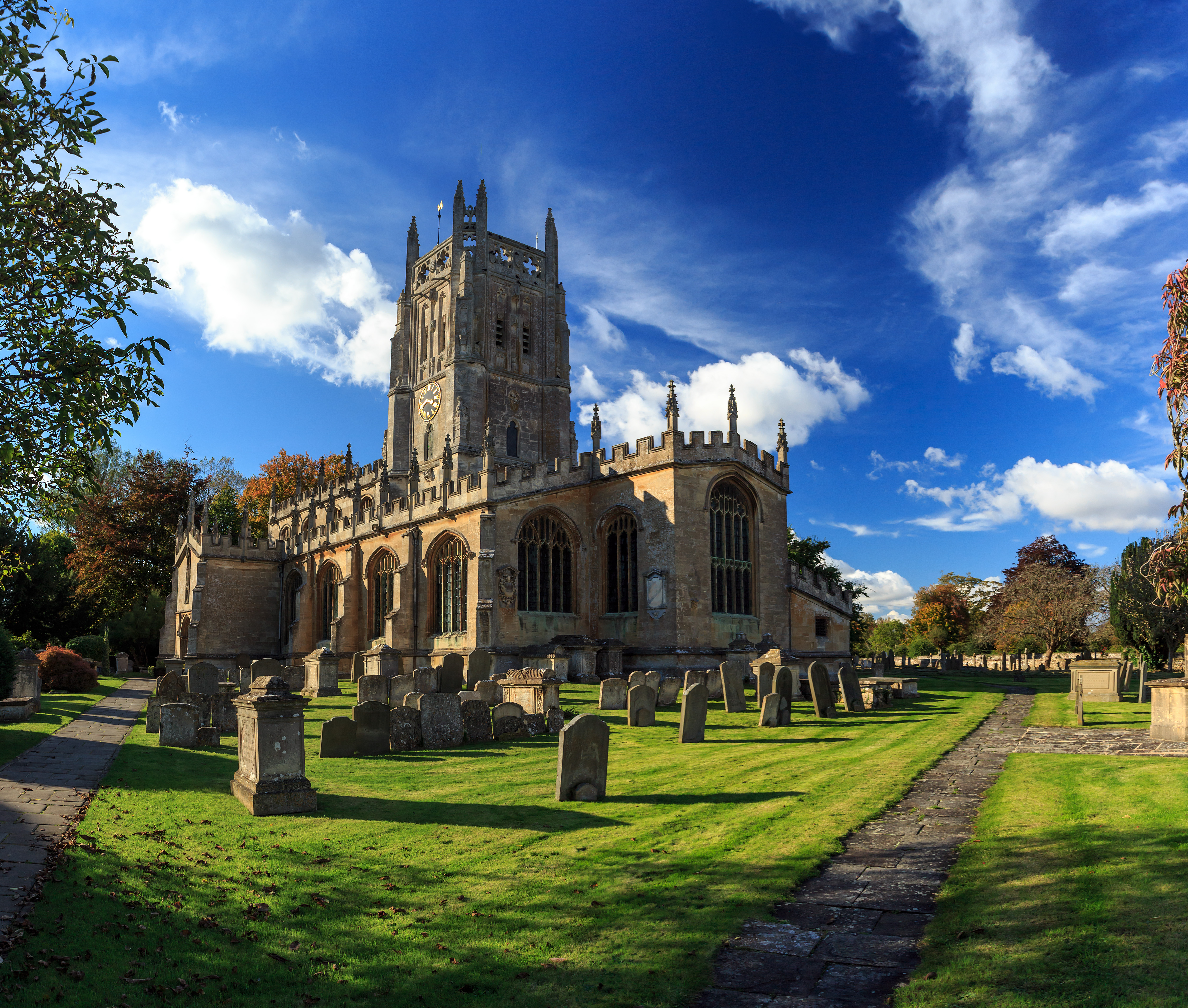 St Mary's Church Native nameChurch of Saint MaryLocationFairford, Gloucestershire, EnglandCoordinates51° 42′ 32.76″ N, 1° 46′ 55.52″ W Establishedcirca 1480 Authority control : Q17525521 LCCN: n86104952 Historic England: 1089998 WorldCat institution QS:P195,Q17525521